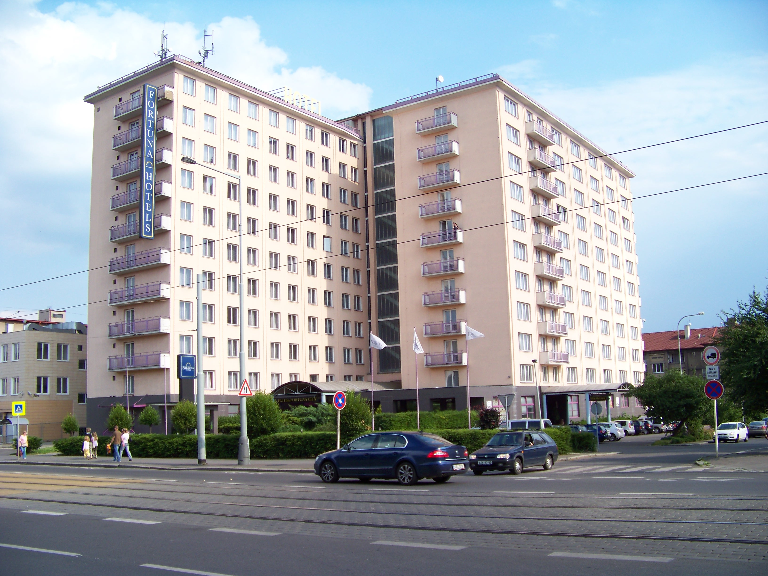 Strašnice, Prague, the Czech Republic. Černokostelecká, hotel Solidarita. - Google Maps - Google Earth